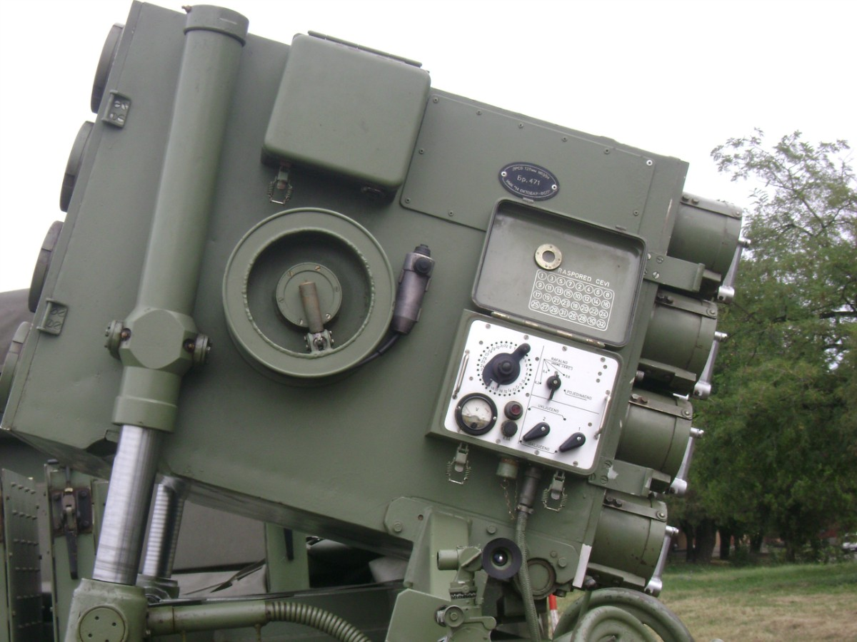 Serbian Army 128mm MLRS Plamen-S.